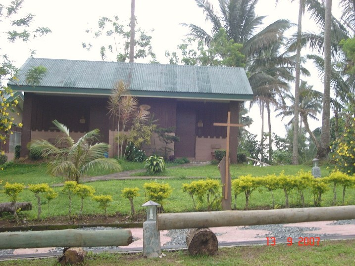 A photo from the Oasis of Prayer, an annex/retreat location of the Rogationist College of Silang, Cavite, Philippines